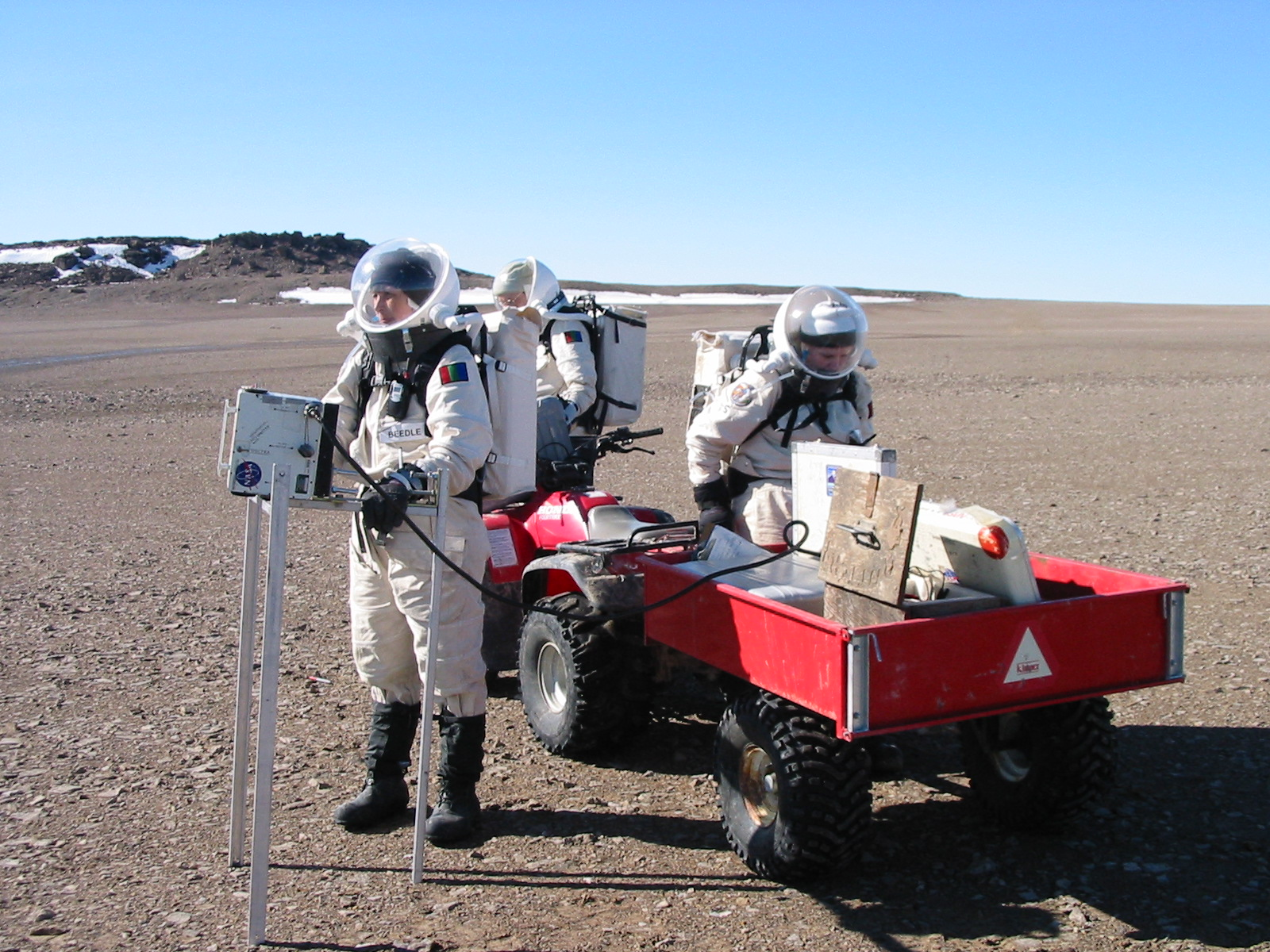 Nell Beedle, Emily MacDonald and Frank Eckardt of Crew 7 use a reflectance spectrometer during EVA on Devon Island on July 19, 2002.